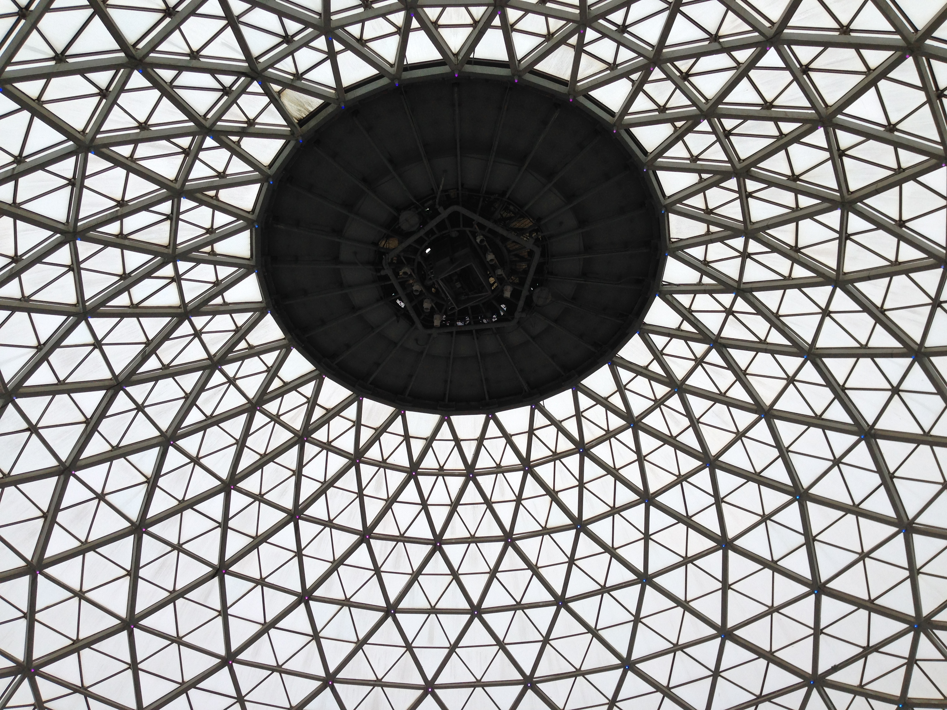 inside Mitchell park dome